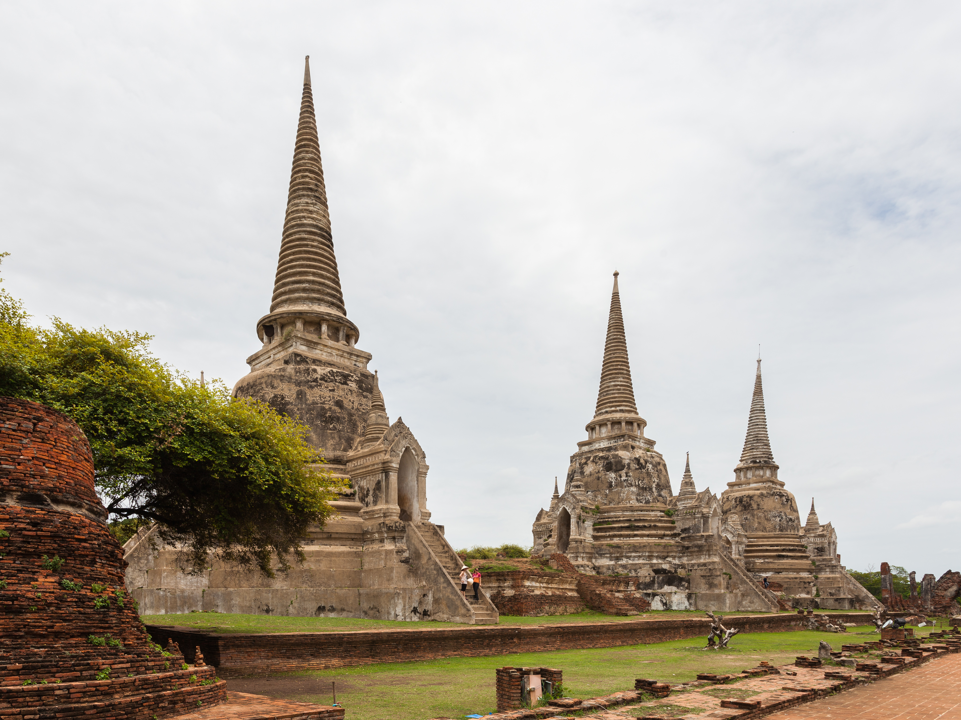 Templo Phra Si Sanphet, Ayutthaya, Tailandia